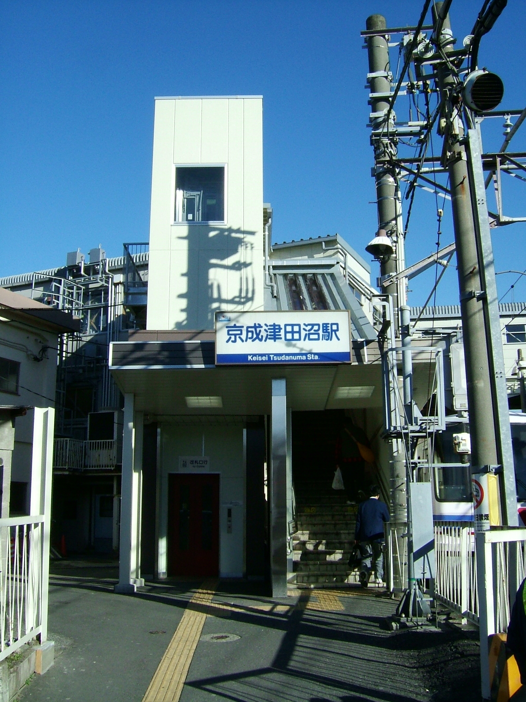 The north entrance to Keisei Tsudanuma Station on the Keisei Line and Shin-Keisei Line in Narashino city, Chiba prefecture, Japan